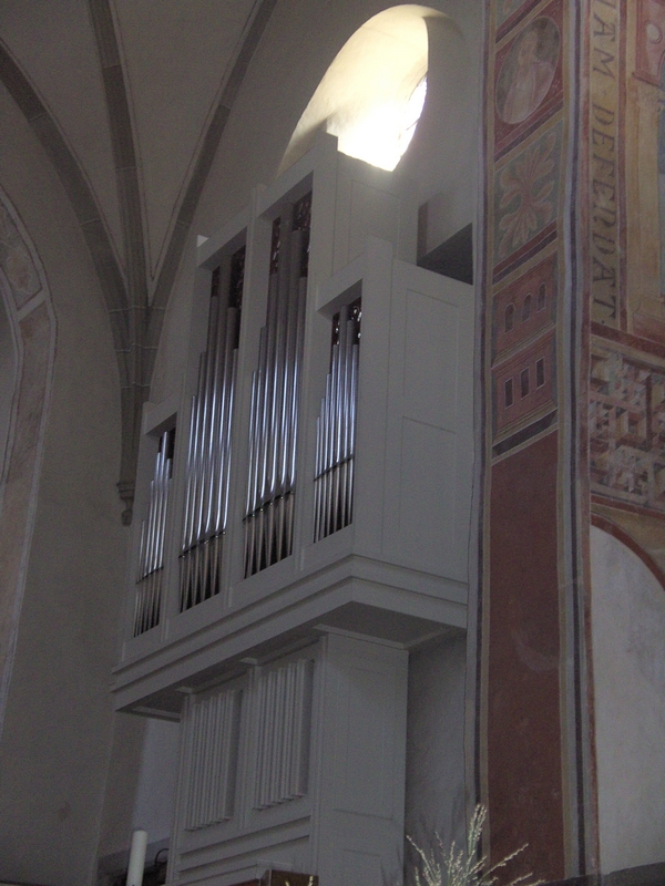 organ of st georg reichenau